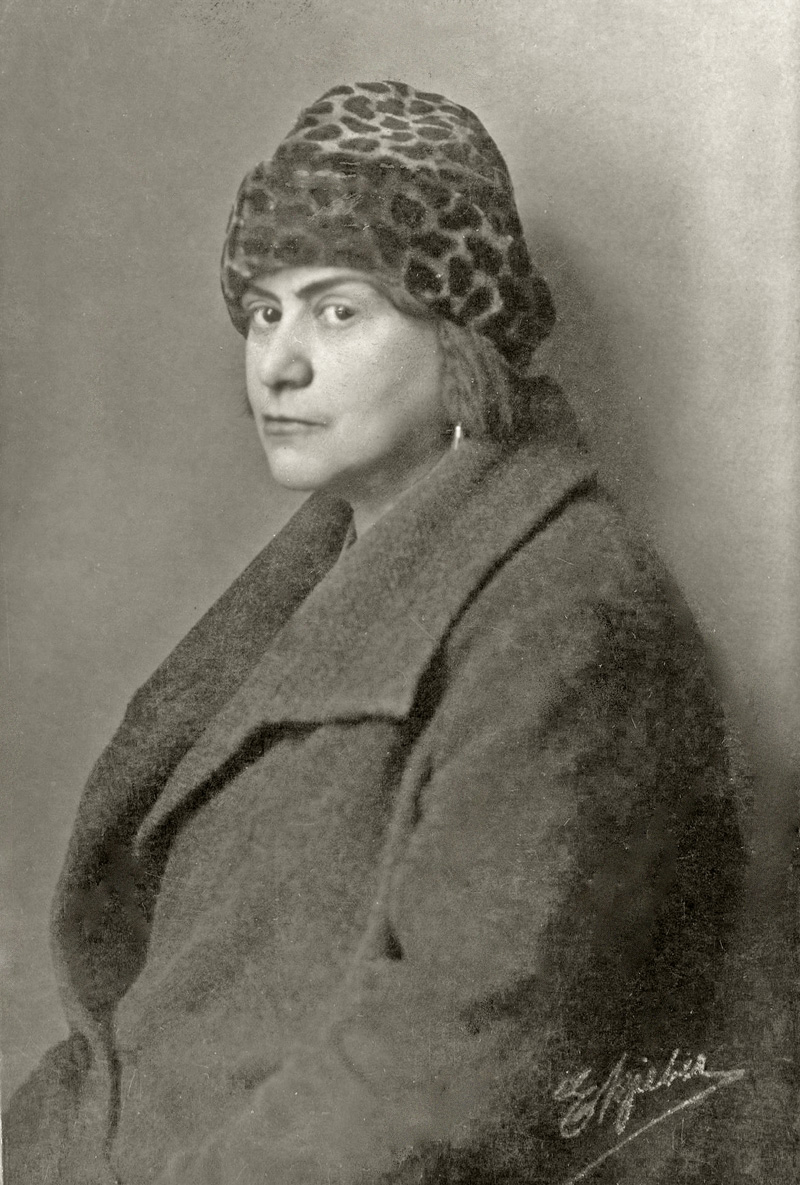 Picture of Else Lasker-Schüler on her 50th birthday